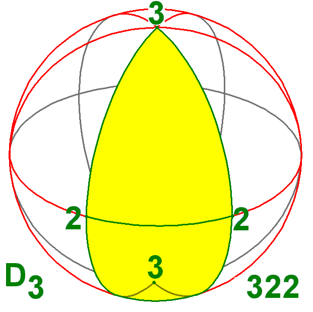 322 symmetry fundamental domain on sphere